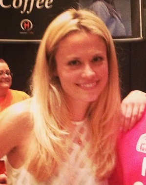 American actress Claire Coffee at Dragon Con.